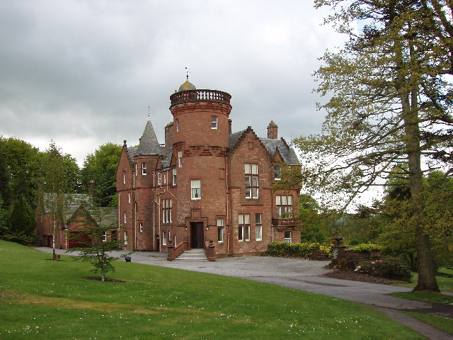 Threave House, Castle Douglas. Built in 1872 by the Gordon family, house and estate given in 1948 to the National Trust for Scotland, who ran a school of gardening there.